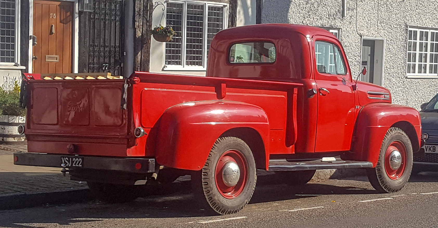 1949 Ford F-3 3.9 Rear Taken in Warwick